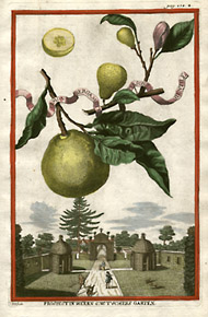 Title: Limon Bergamotto Personzin Gientile Illustration of bergamot orange (Citrus bergamia, also known as Bitter orange or Citrus aurantium) from the Volckamer collection